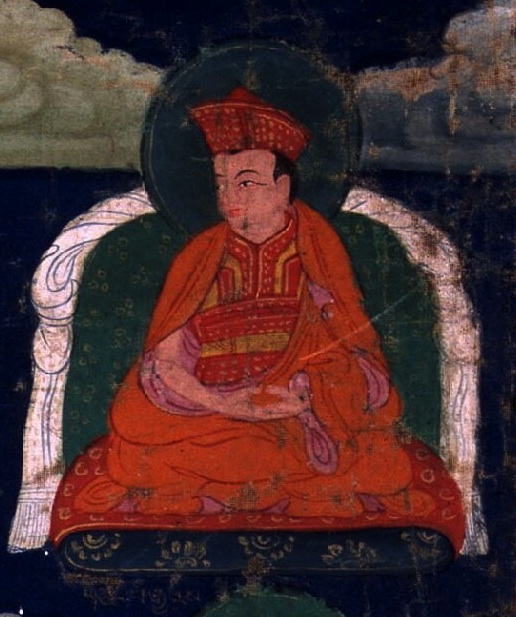 Tsangpa Gyare (b.1161 - d.1211)- 1st Drukchen